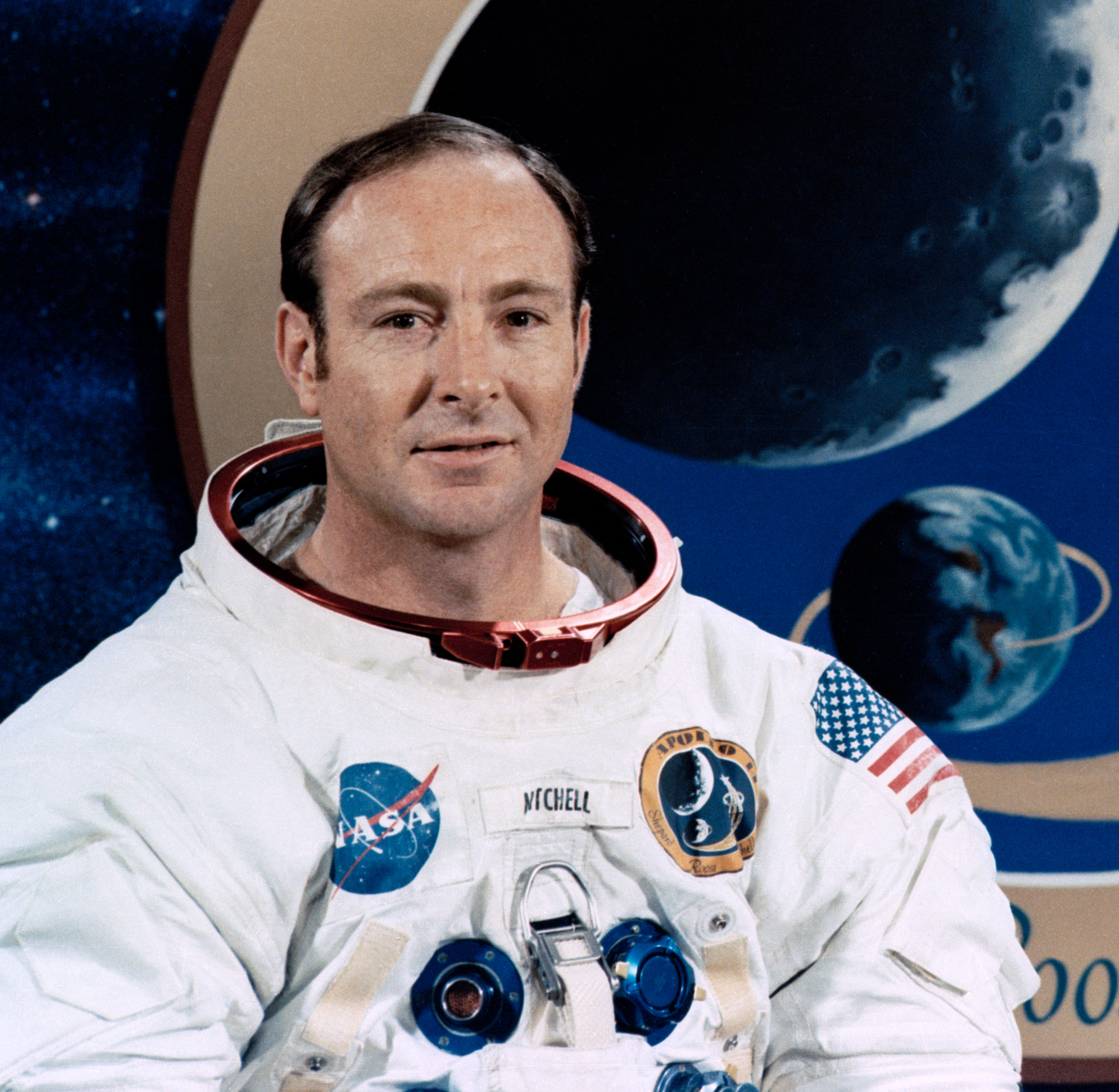 The picture is Ed's formal Crew Portrait